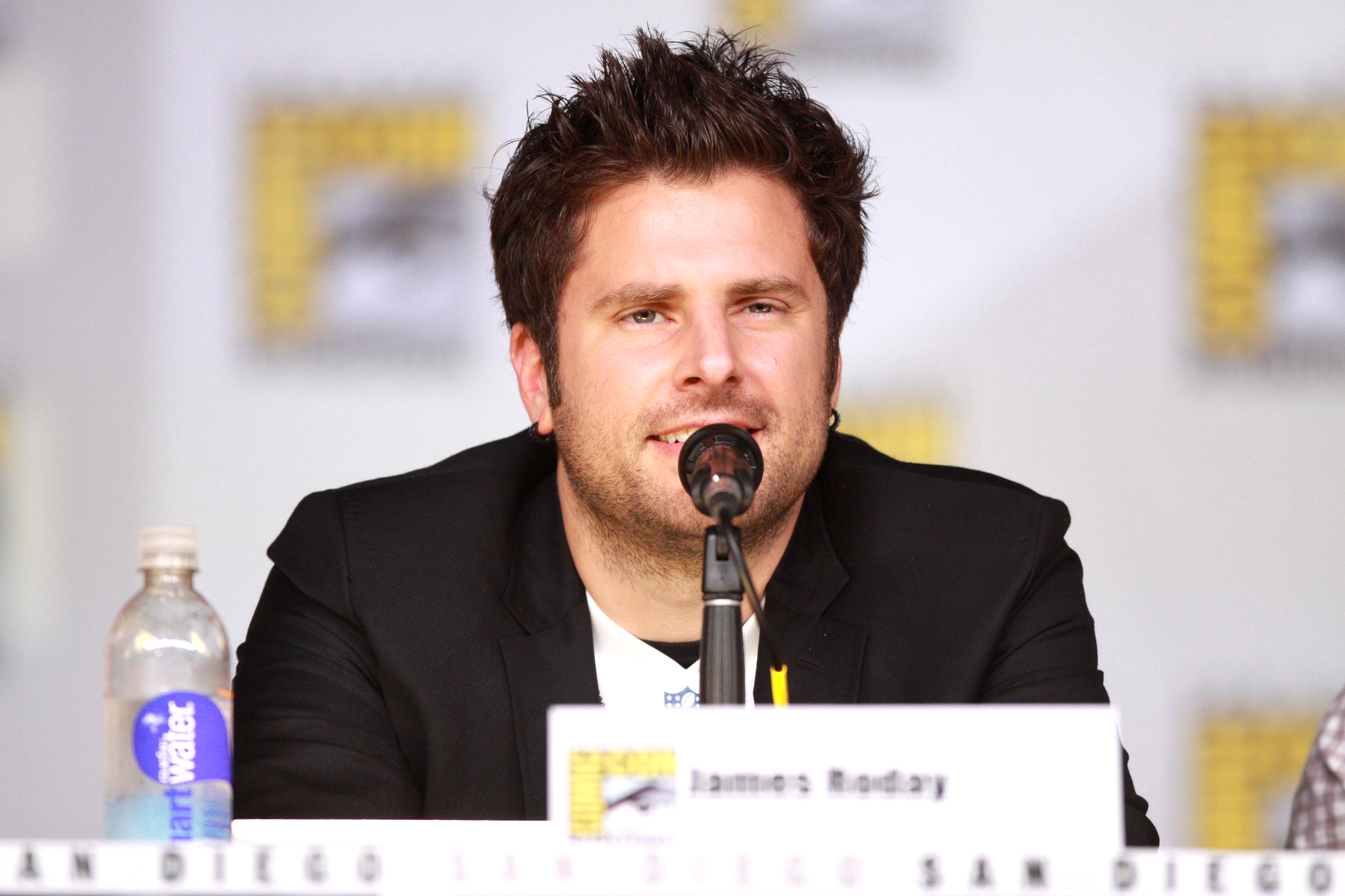 James Roday speaking at the 2013 San Diego Comic Con International, for "Psych", at the San Diego Convention Center in San Diego, California.